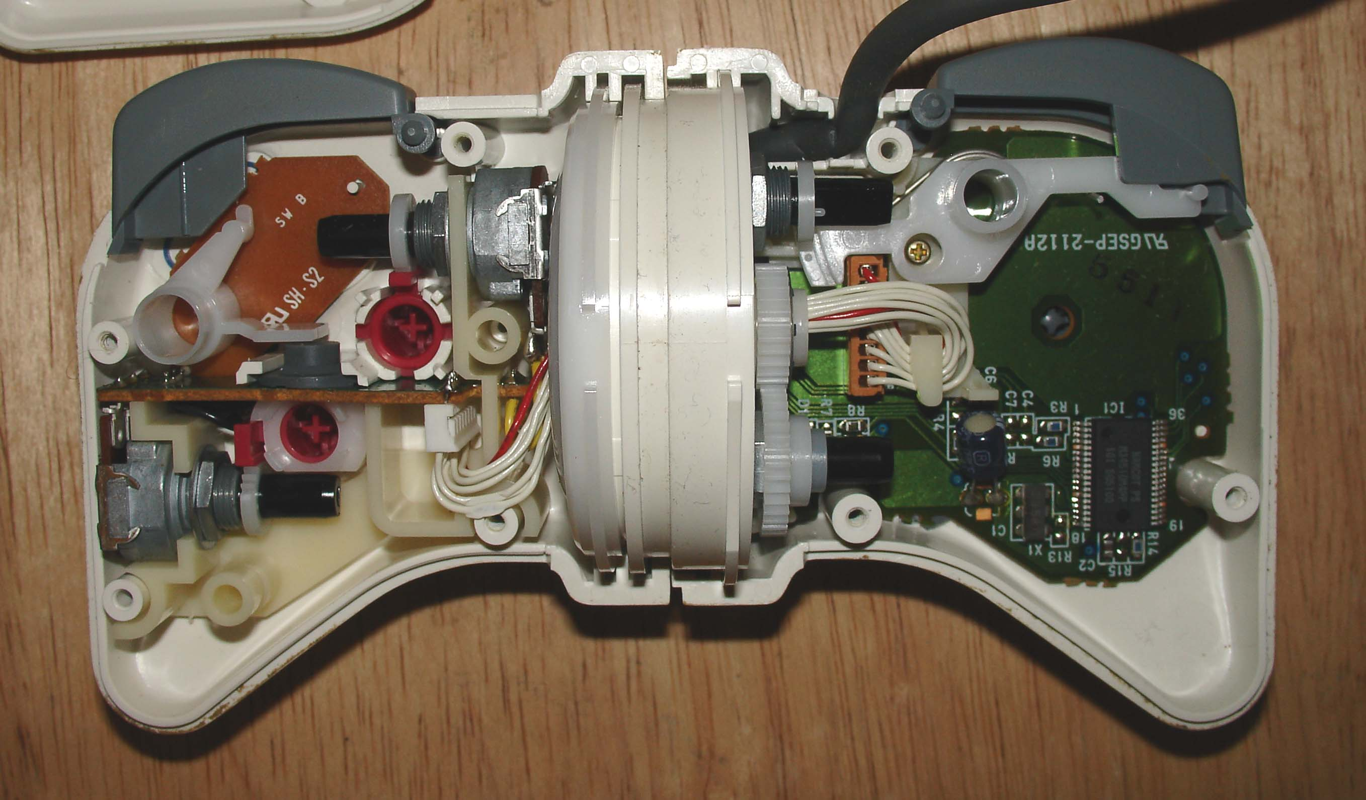 This is the insides of a Namco NeGcon controller, viewed by taking off the back shell of the controller. Note the presence of two potentiometers on the right side of the controller (left in this picture), used for the I and II analog buttons (red circles with crosses inside). Also note the presence of two potentiometers on the left side of the controller, the upper which reads the analog L button and the lower which reads the twist of the controller. Note the R button pushes a white plastic lever (pivot of which is in the back half of the controller not shown) which pushes a standard digital dome switch.